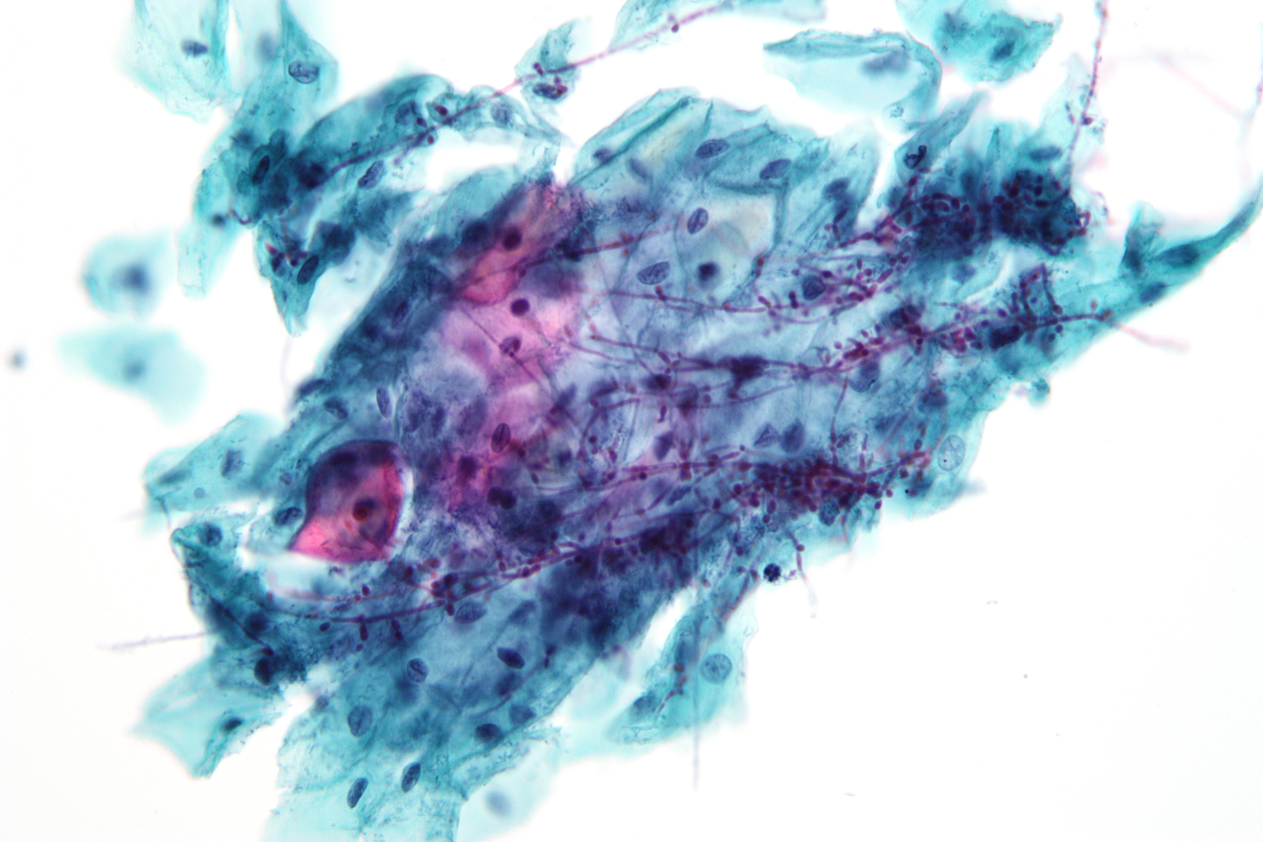 Micrograph showing candida. Pap test. Pap stain. See also Image:Candida pap 2.jpg - different plane of focus.